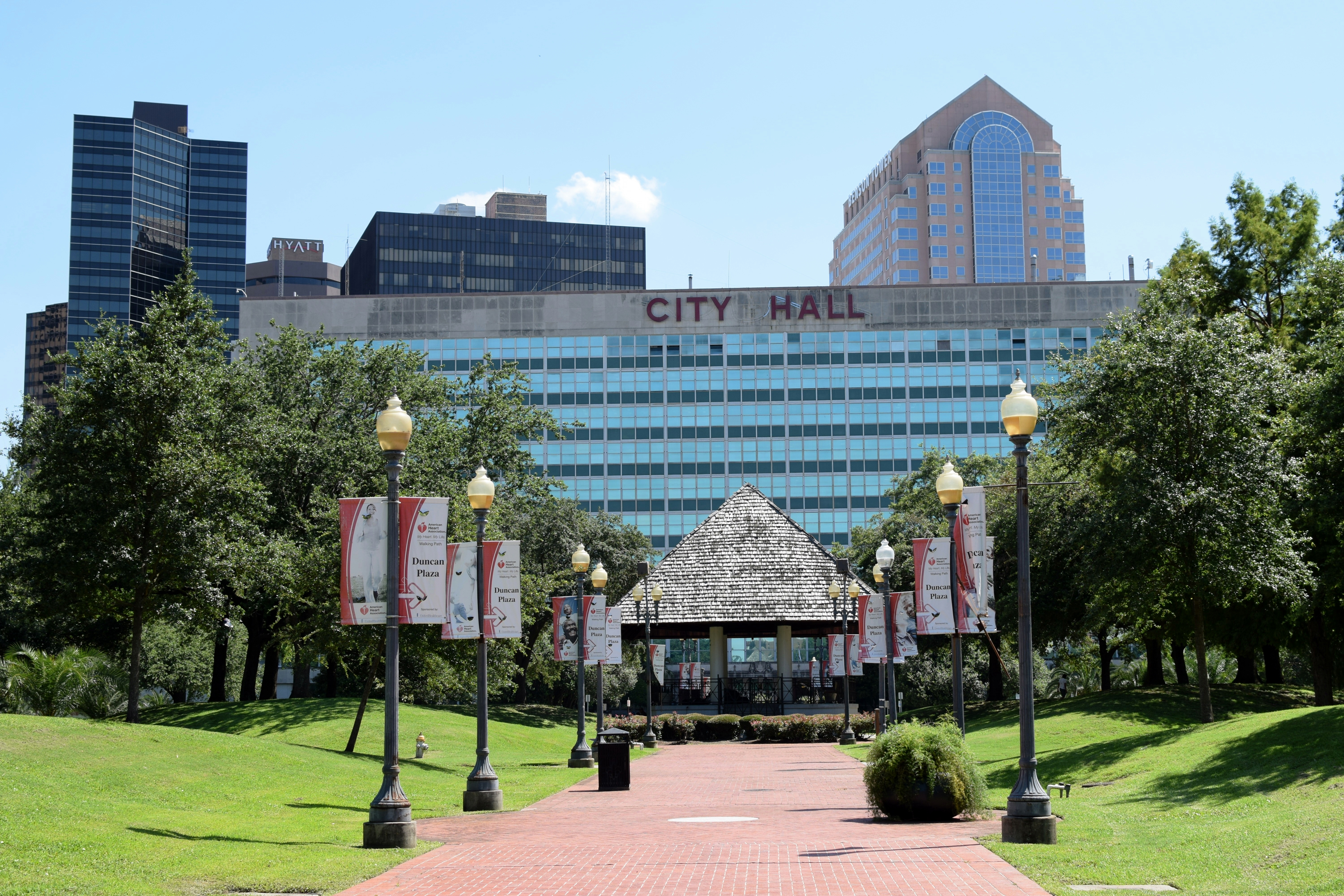 Duncan Plaza (foreground) and City Hall in New Orleans, La.